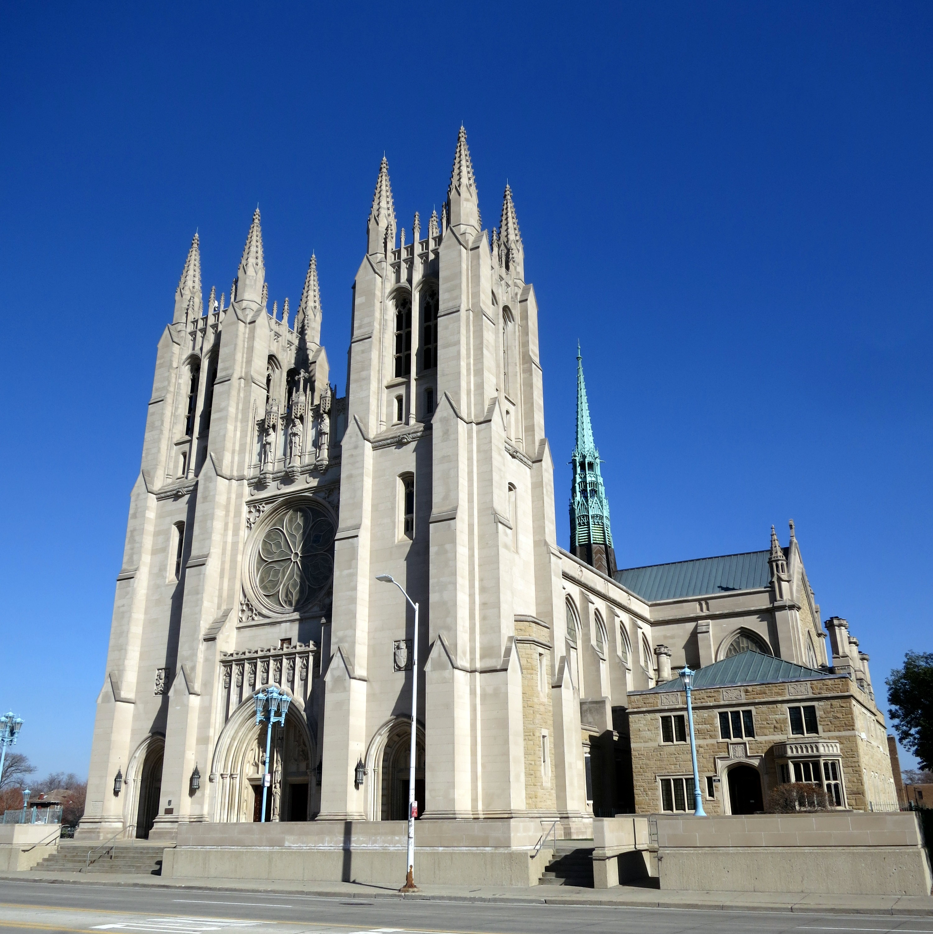 Cathedral of the Most Blessed Sacrament (Detroit, Michigan) - exterior